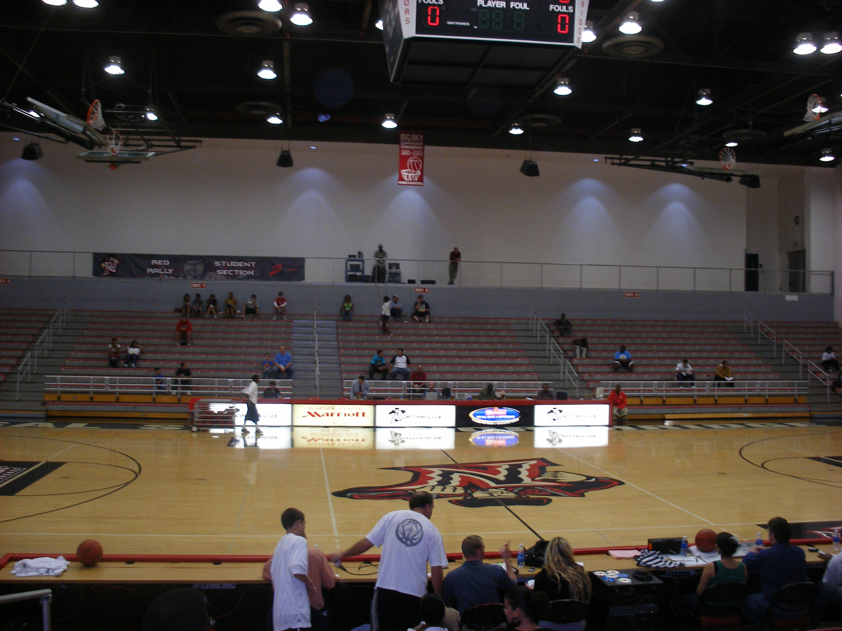 An interior view of the bleachers on the south end of Matador Gymnasium, or the Matadome, on the campus of California State University Northridge.